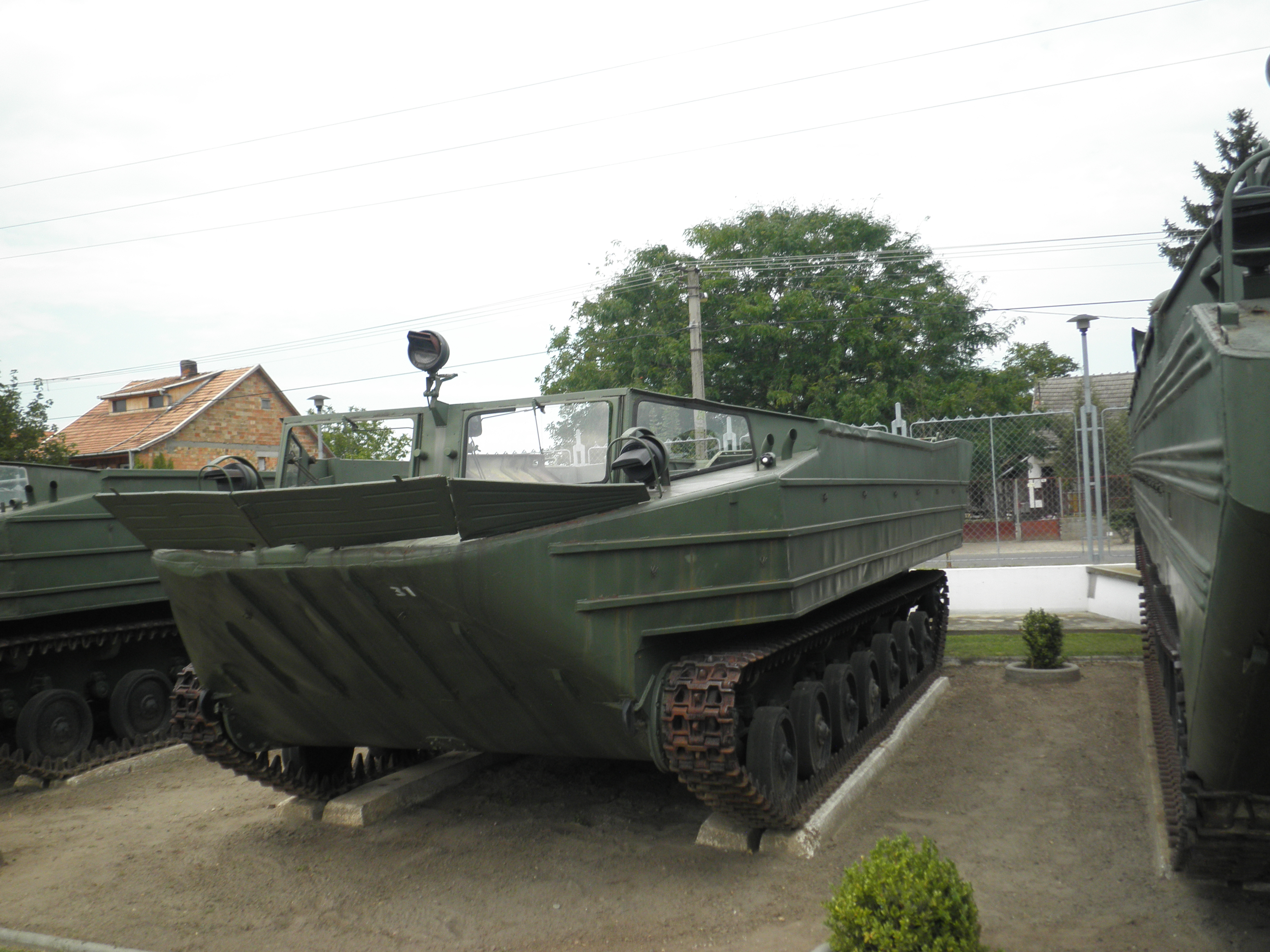 K-61 LUG tracked amphibious transport in Army History Museum and Park in Kecel, Hungary